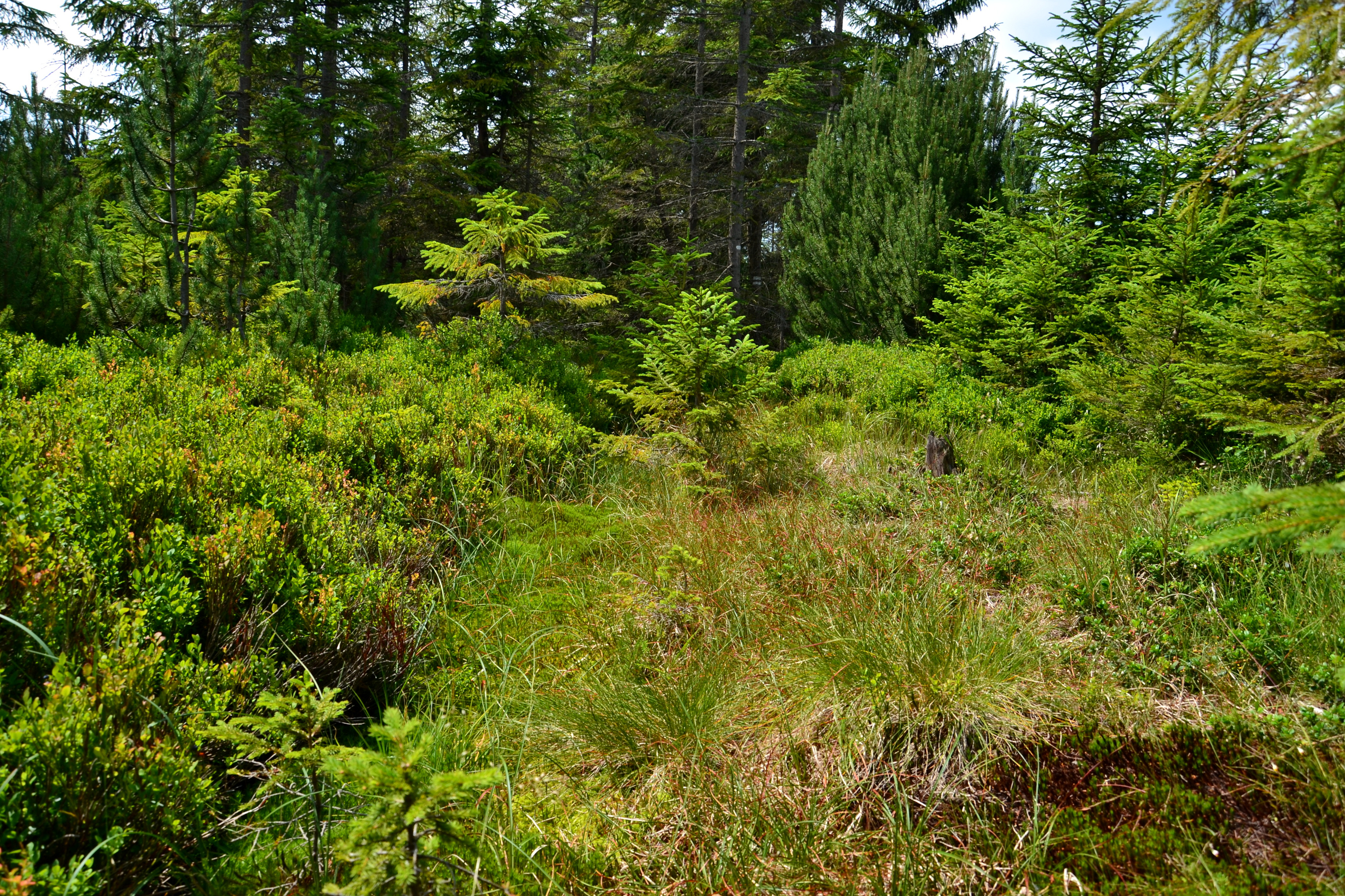 Nature reserve Oceán